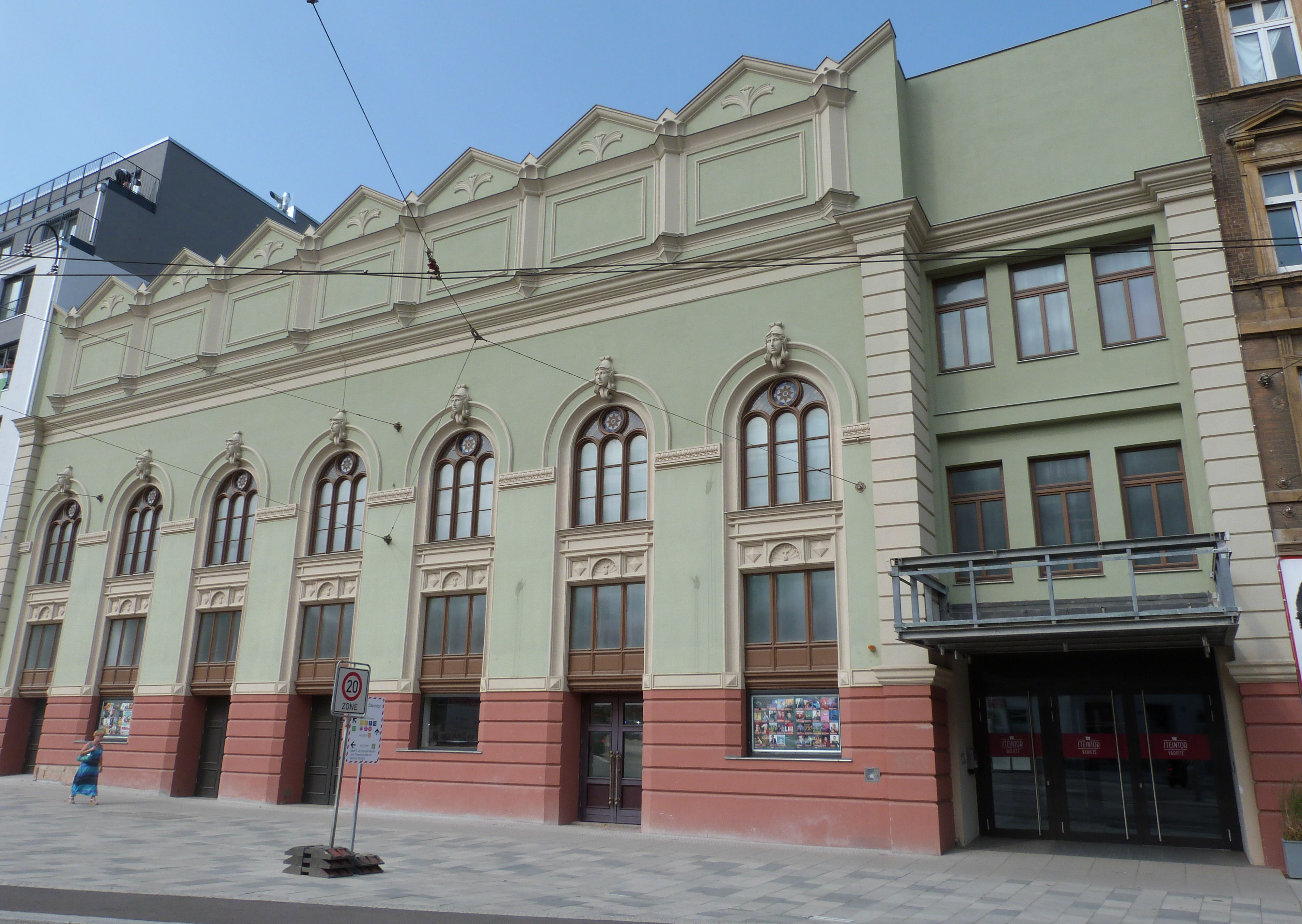 Steintor Variety Theatre in Halle (Saale), Saxony-Anhalt